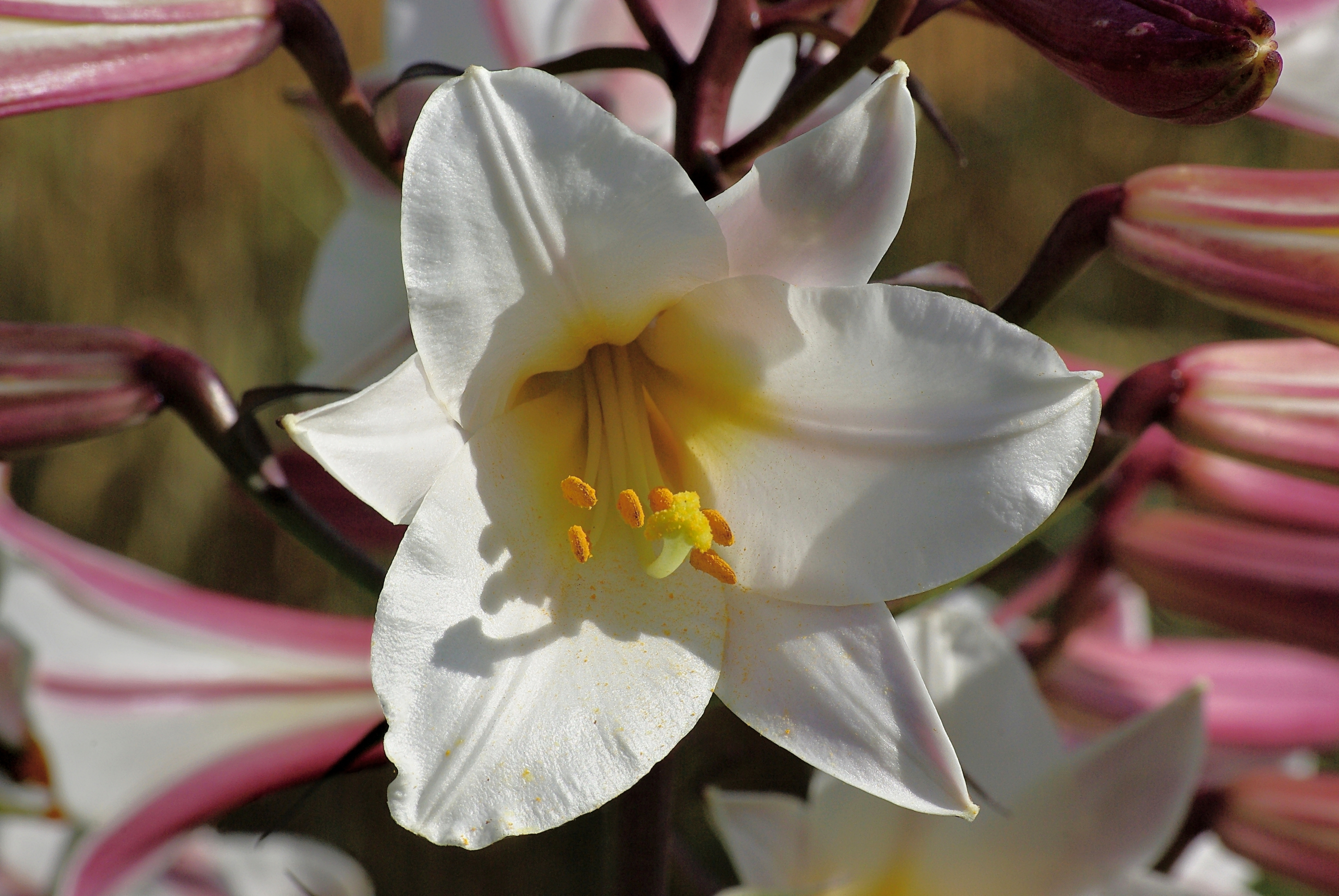 Flower of Lilium regale, in a garden, France.